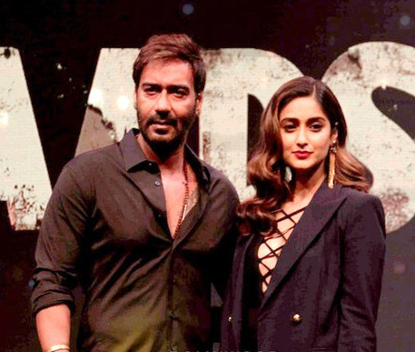 Ajay Devgn and Ileana D'Cruz snapped at the trailer launch their film ‘Baadshaho’ in Royal Opera House, Mumbai on (07 August 2017).